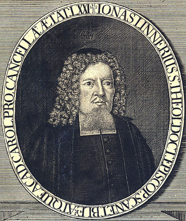 Jonas Petri Linnerius (1653-1737), swedish bishop. Picture published in 1723, thus in the Public Domain.